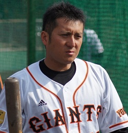 Giants_ino